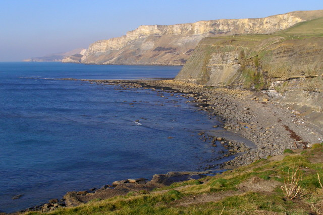 Hobarrow Bay and Long Ebb Looking north-west across the northern part of Hobarrow Bay, with Long Ebb protruding from the headland. Long Ebb is formed by the Flats dolomite bed which reappears at Broad Bench and in places in the west of Kimmeridge Bay. In the distance across Brandy Bay is Gad Cliff.